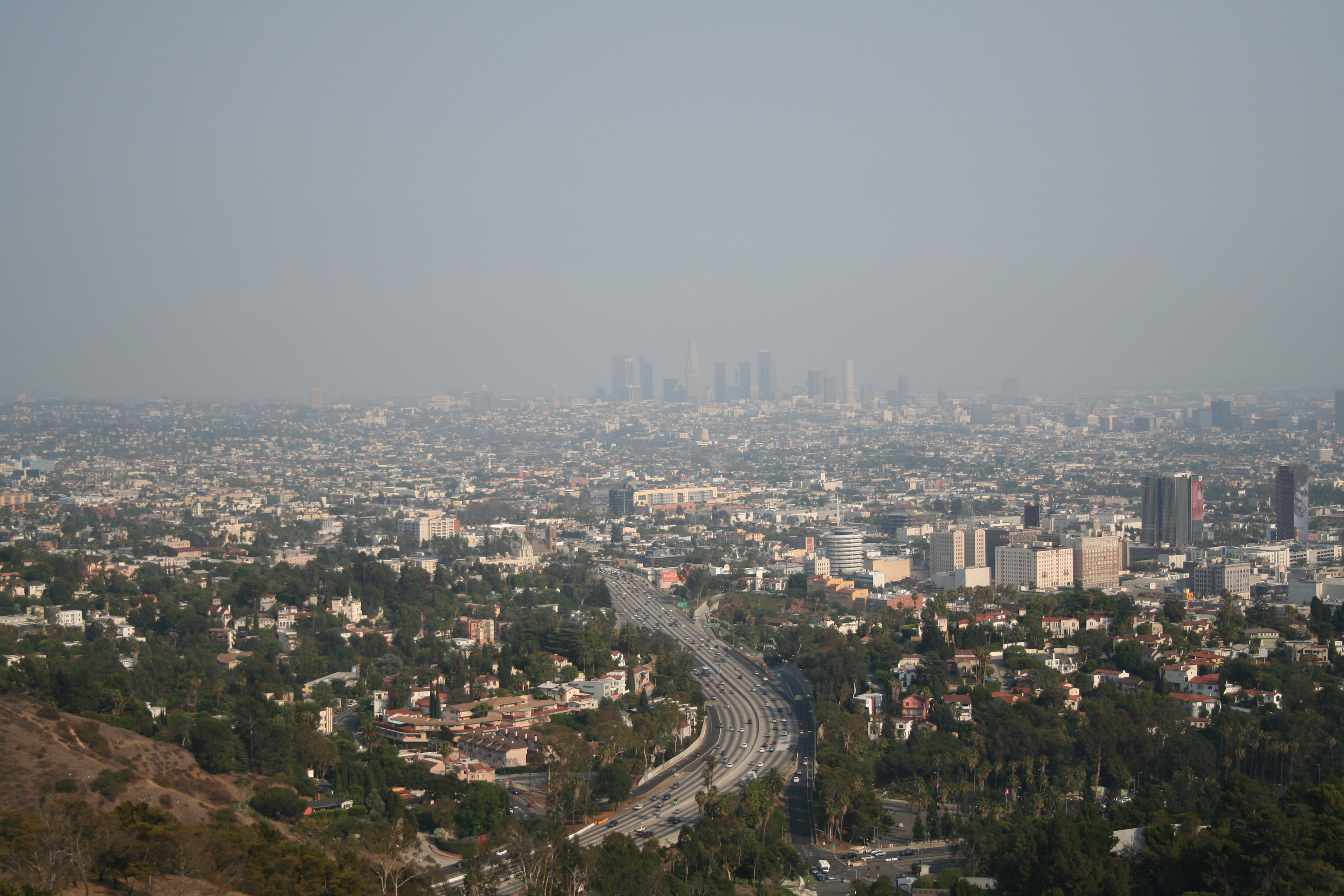 A photograph taken of the city of Los Angeles covered in smog.